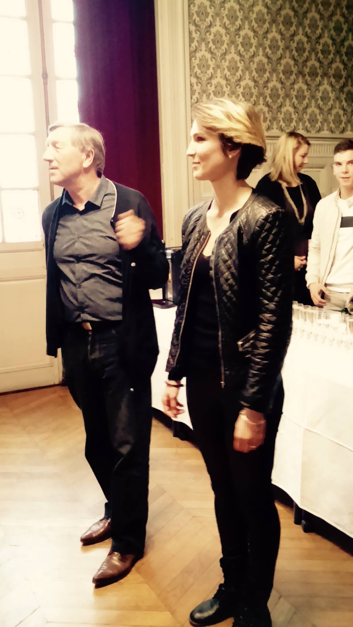 Charlotte Letrillard (à droite), avec Jacques Krabal